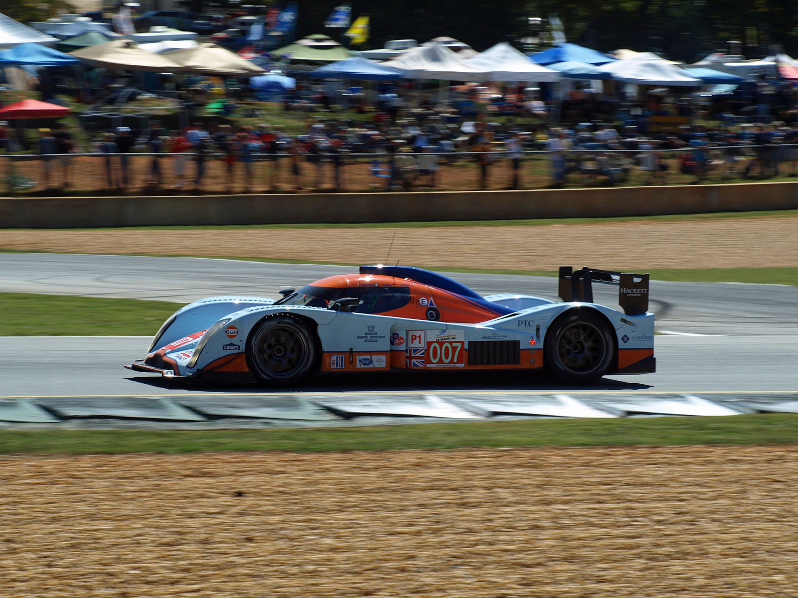 Adrián Fernández driving the Aston Martin Racing Lola-Aston Martin B09/60 at the 2011 Petit Le Mans at Road Atlanta.